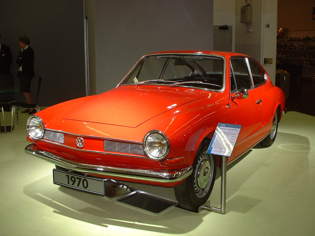 Actually built by VW do Brasil. Their interpretation of the Karmann Ghia, from 1970. Exhibited by VW at Techno Classica Essen in 2007.